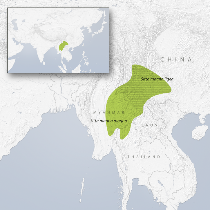 Distribution of the Giant Nuthatch (Sitta magna)